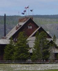 The Old Faithful Inn at Yellowstone National Park, Wyoming, United States is a designated US National Historic Landmark.